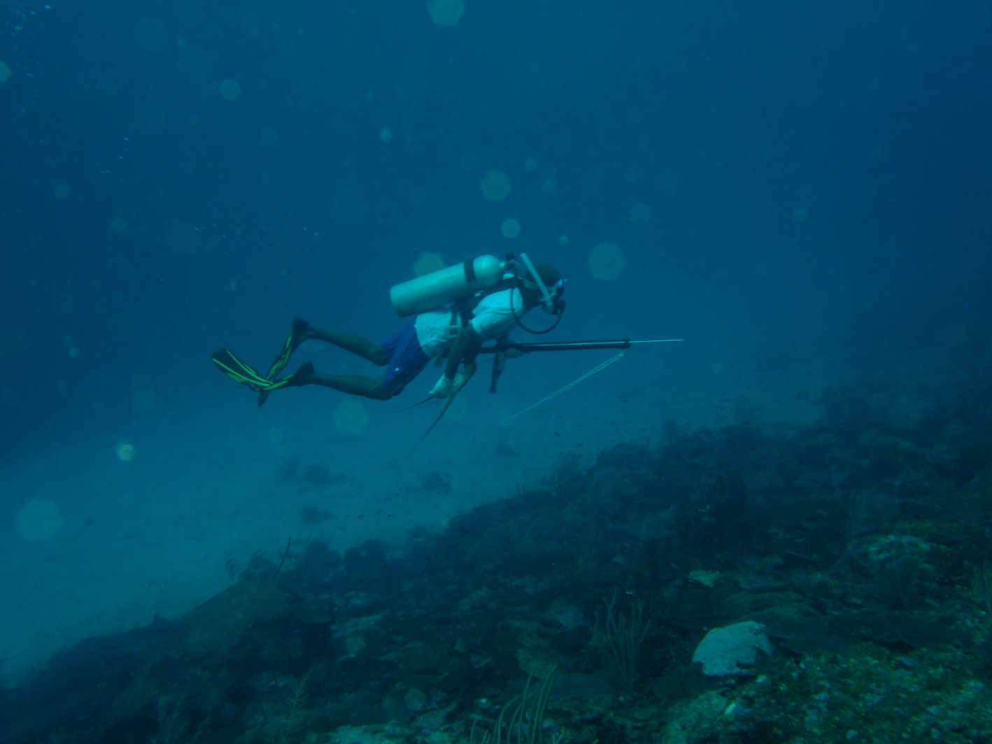 Abram on the island at 38 metres. He continued and crossed to the Fathom. The photographer went left and finished on the Inner Reef.